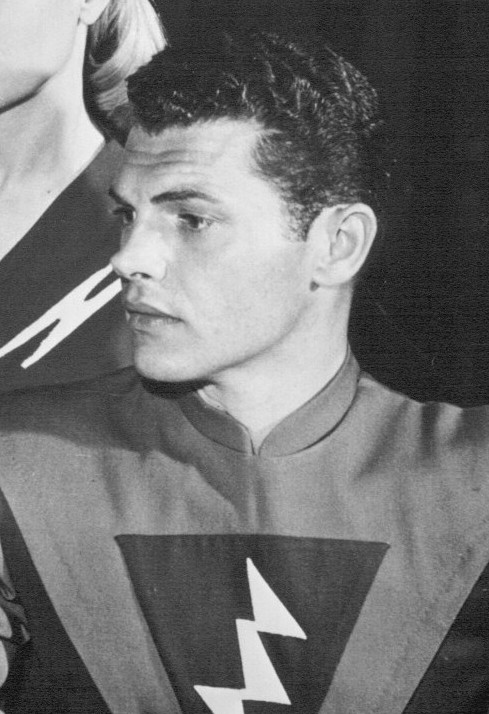 Photo of Virginia Hewitt as Carol and Ed Kemmer as Buzz Corey from the children's television series Space Patrol.